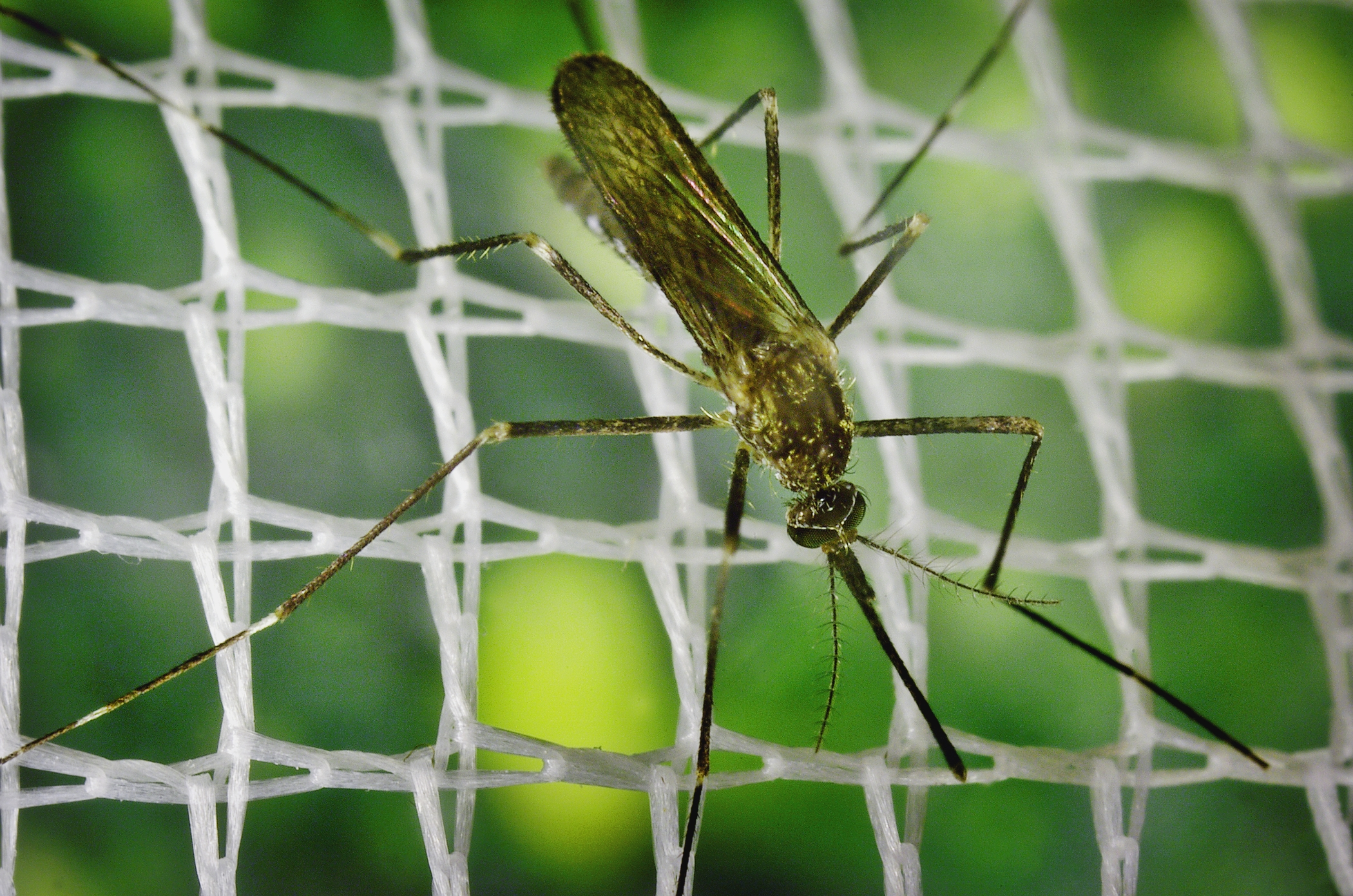 Original description from CDC: The mosquito pictured here in this 2005 photograph, was until recently known as Aedes japonicus, and is now labeled Ochlerotatus japonicus. This particular specimen was a member of the Notre Dame colony. Oc. japonicus was initially collected in the United States in New York and New Jersey, in 1998. The Ochlerotatus japonicus Notre Dame colony was established from specimens that had been collected as larvae, in water filled containers, i.e., flower pots and tires, in residential areas of South Bend, Indiana during the summer months of 2005. This mosquito is suspected of being a vector of the Japanese Encephalitis virus in Asia, and the West Nile in the United States. While Oc. japonicus has not been incriminated as a major vector of West Nile virus in the United States, it is nevertheless of concern to public health agencies because of its fairly rapid colonization of a large part of the north eastern and midwestern United States, and for its propensity to lay eggs in flooded containers found around human dwellings.